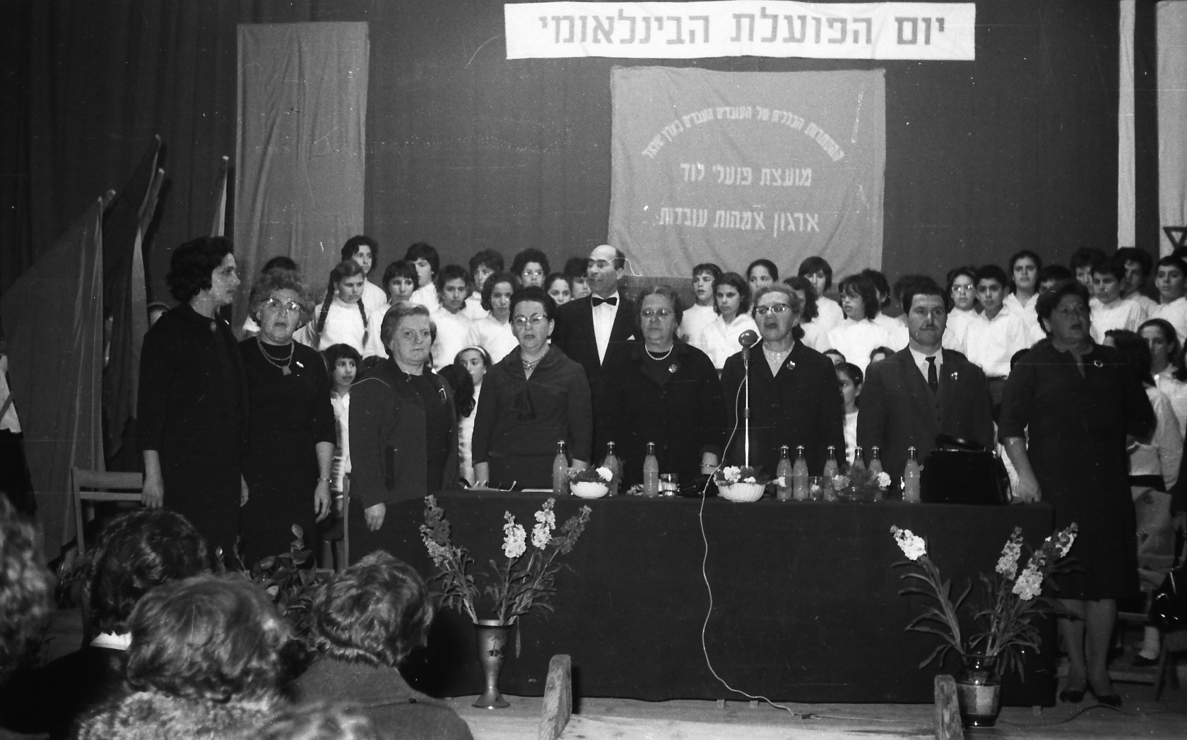 Events in Israel